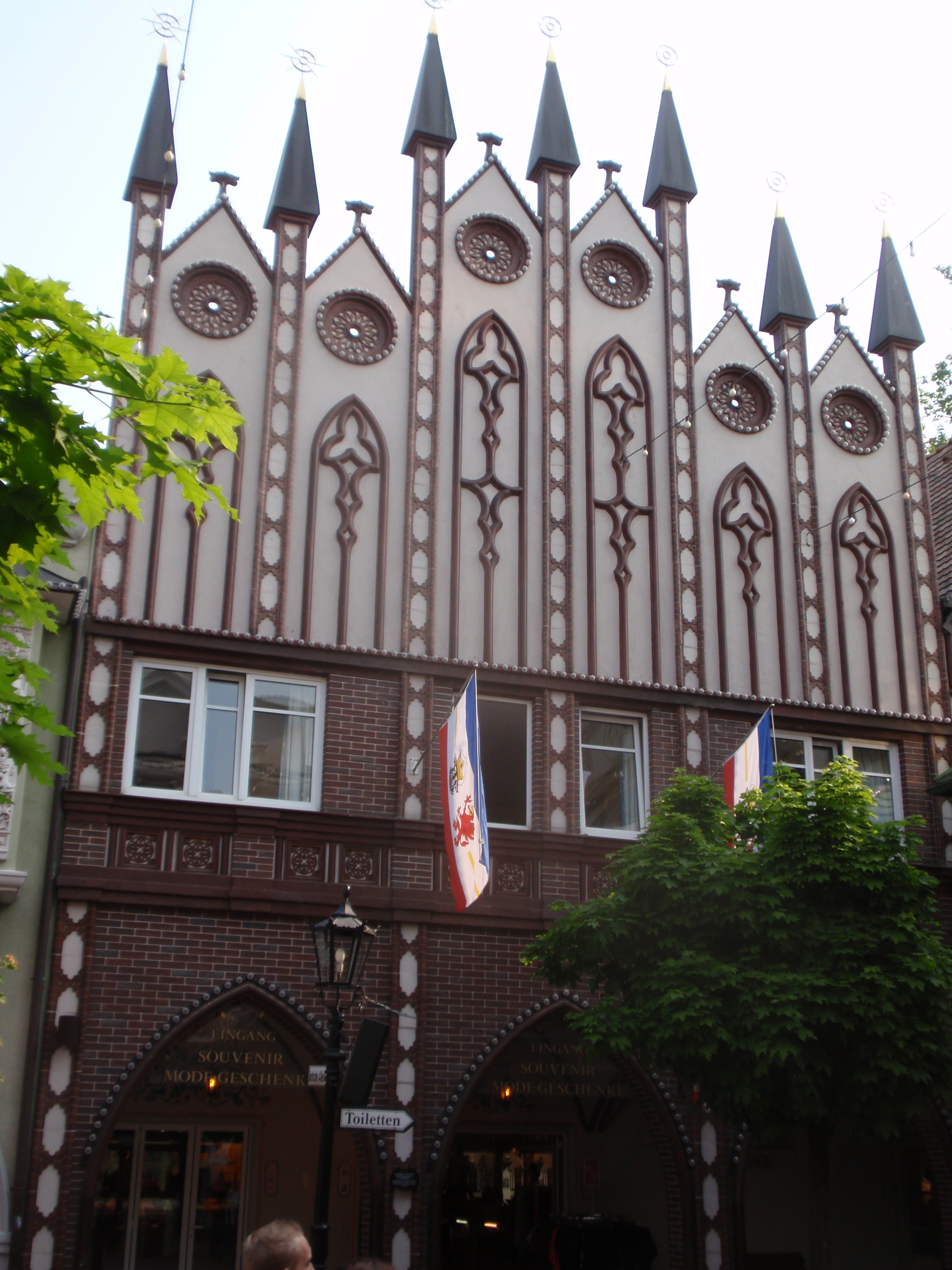 urban house representing the state of Mecklenburg-Vorpommern on the German Avenue in the Europa-Park Rust